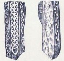 image